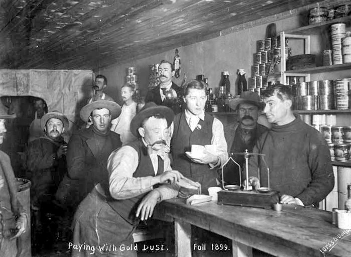 Dawson City during the Klondike Gold Rush. Interior view of grocery store; canned goods on display behind counter; eleven men around counter which holds a scale; one man pours gold dust from a bag. Note on image identifies one man as Solly and another as Abe Spring